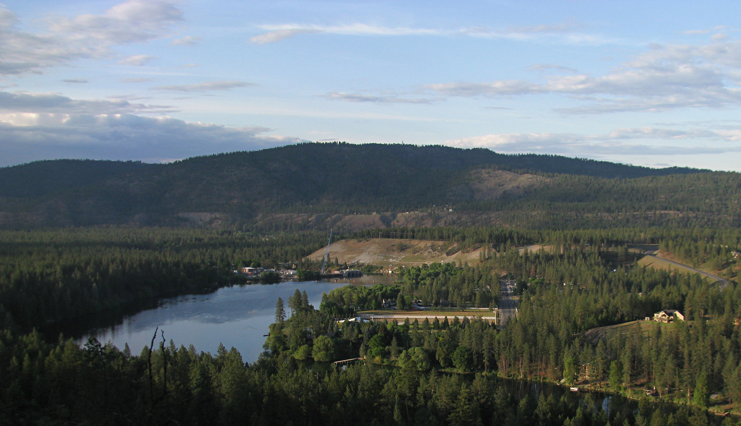 Nine Mile Dam and part of the community of Nine Mile Falls as viewed from Riverside State Park